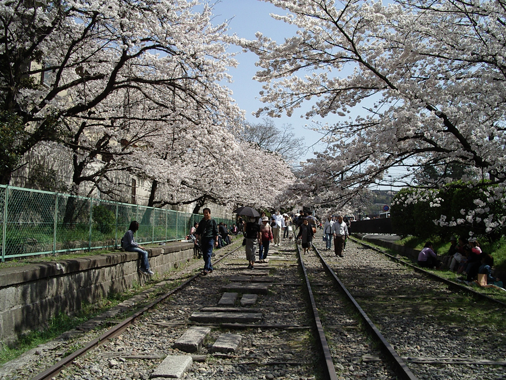 Incline railroad in Kyoto, Japan. It is not used today, becoming a popular Hanami spot.